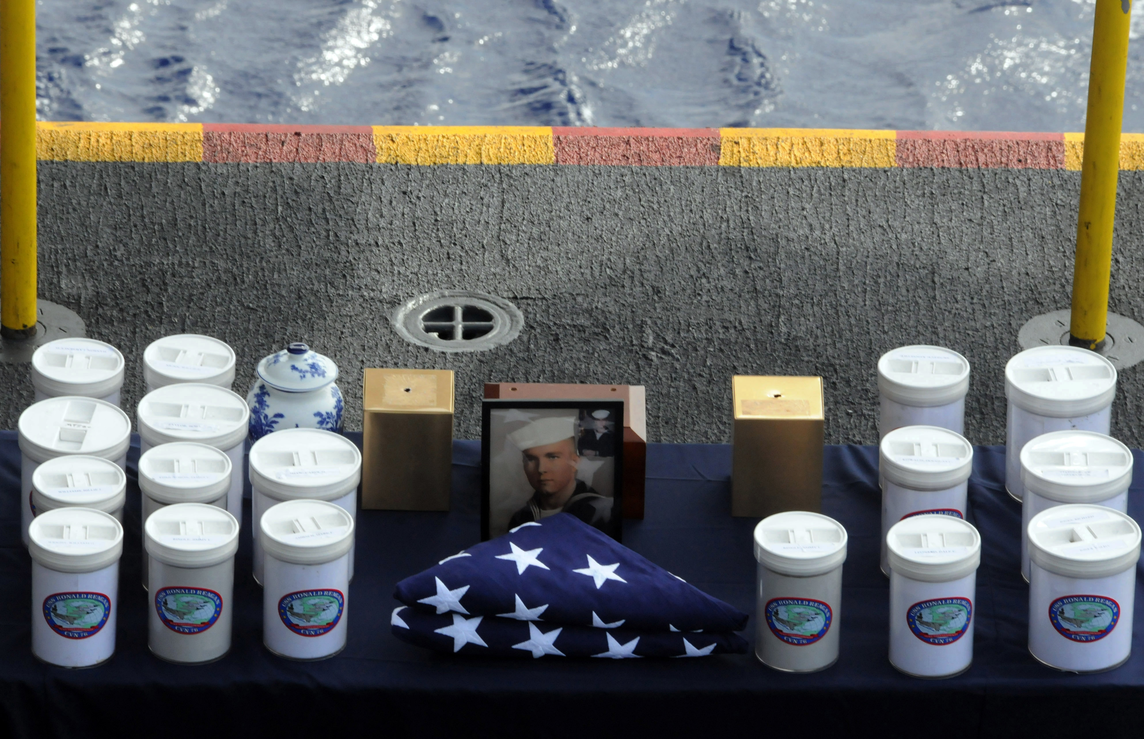 PACIFIC OCEAN (June 9, 2009) The ashes of service members and their spouses are arranged on a table during a burial at sea ceremony aboard the aircraft carrier USS Ronald Reagan (CVN 76). Capt. K.J. Norton, commanding officer of Ronald Reagan, spoke to the crew and reminded them as they serve on Ronald Reagan, their families are part of the Ronald Reagan family. These words were held evident as a photo of Edmond McKinley Myers, father of Ronald Reagan Sailor Boatswain's Mate 1st Class Ryan Myers, was displayed among the ashes. Ronald Reagan is on a routine deployment to the western Pacific Ocean. (U.S. Navy photo by Mass Communication Specialist 3rd Class Torrey W. Lee/Released)